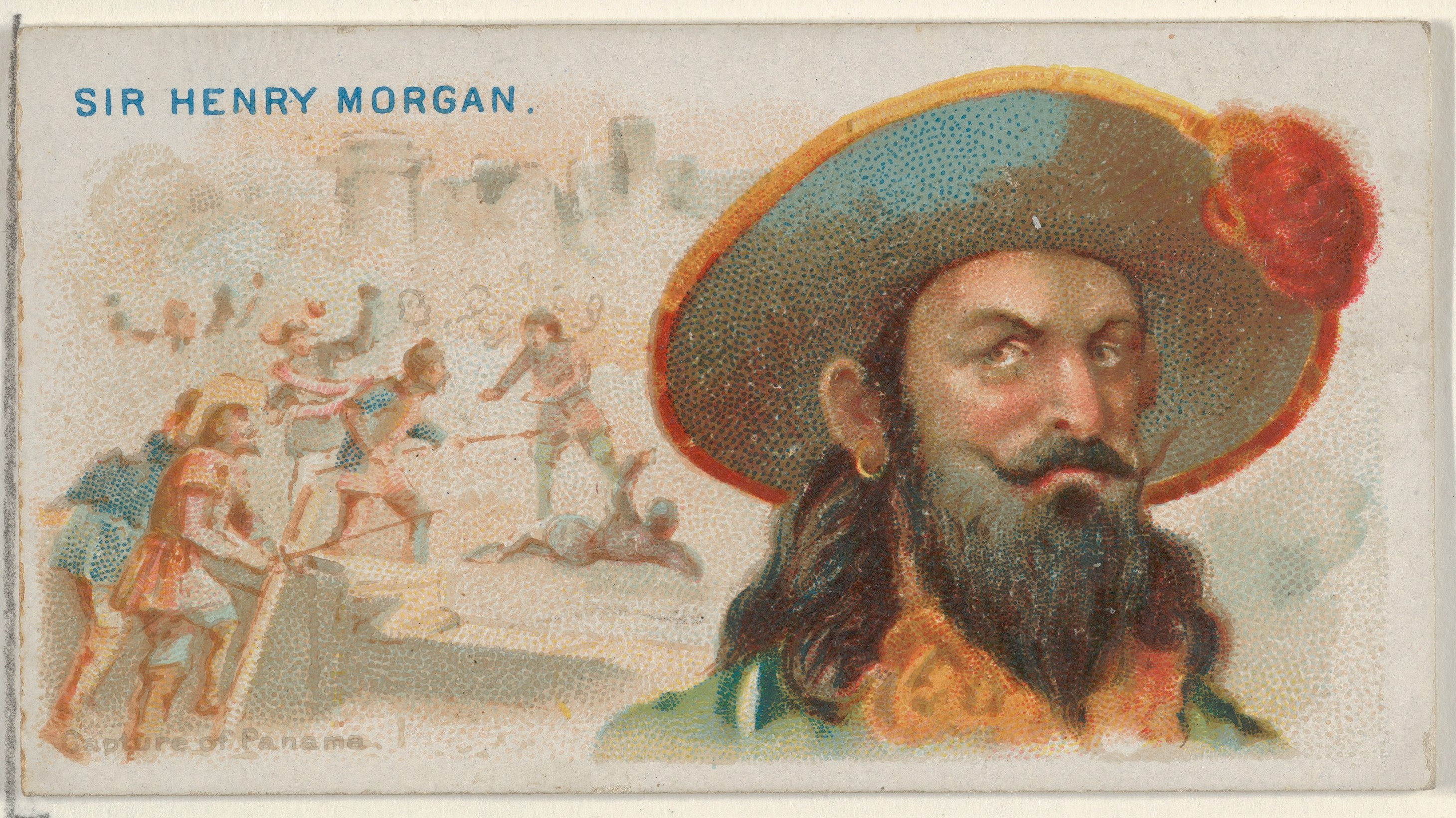 Print; Prints